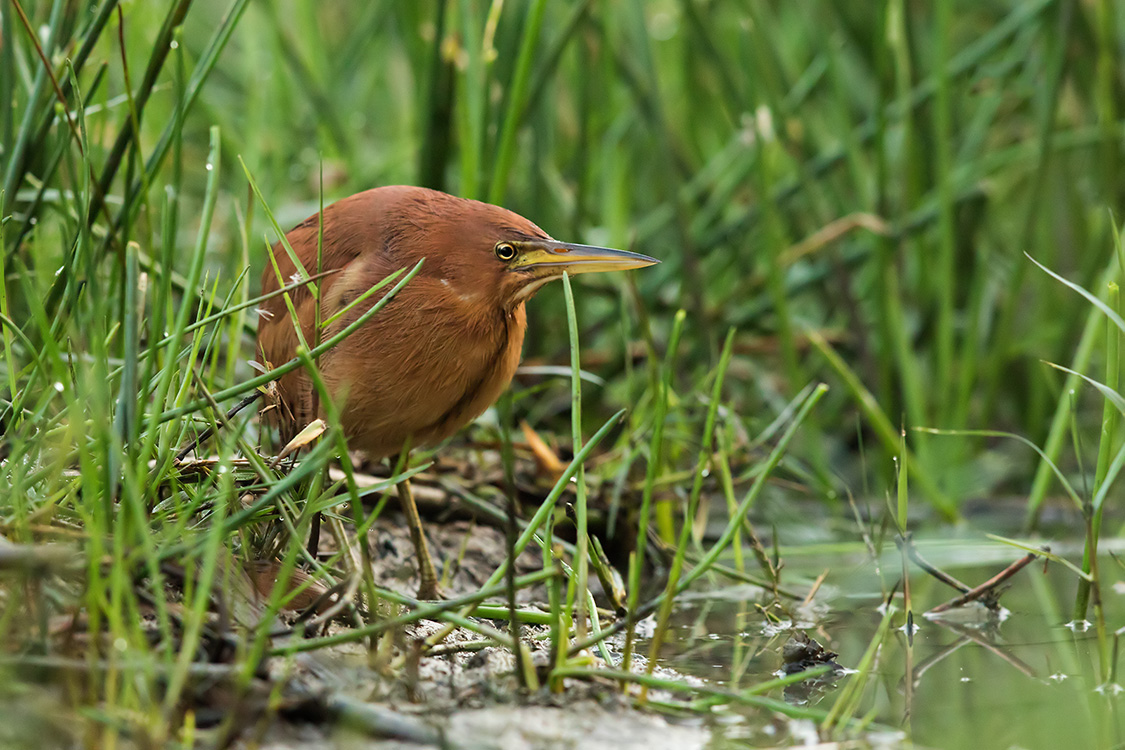 Cinnamon bittern in Mangalajodi, Odisha